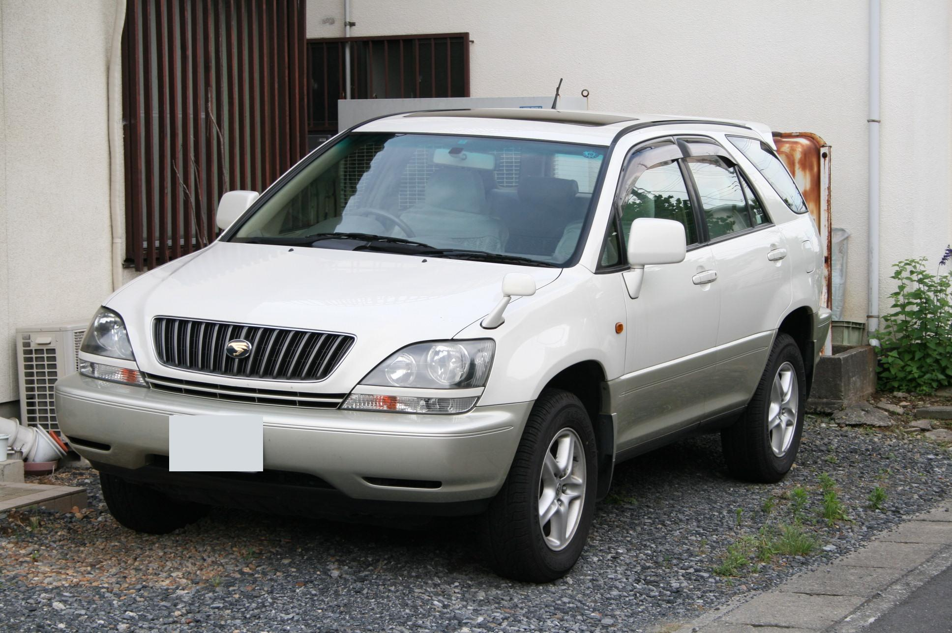 Toyota Harrier